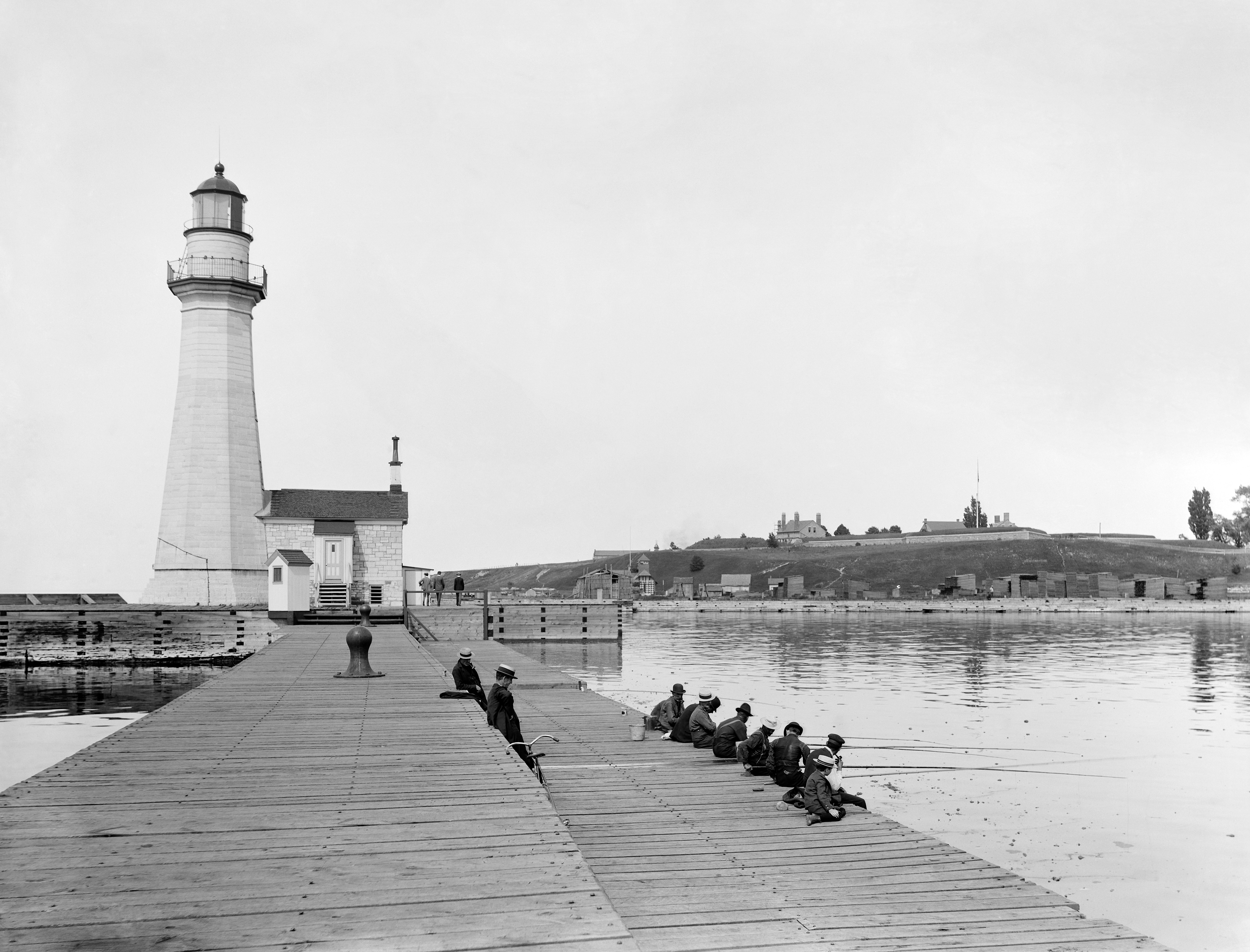 Light house and Fort Ontario, Oswego, N.Y. (Former lighthouse dismantled in 1929)[1]